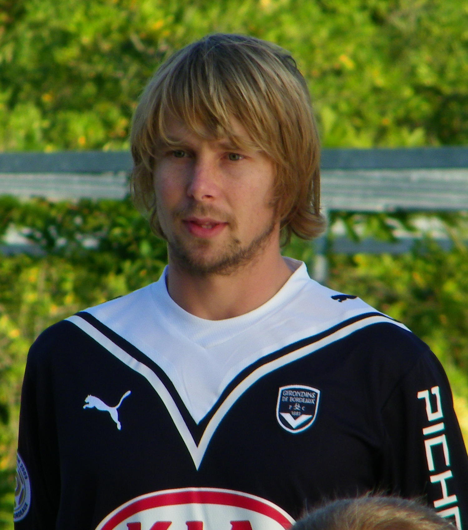 Jaroslav Plašil; Ulrich?